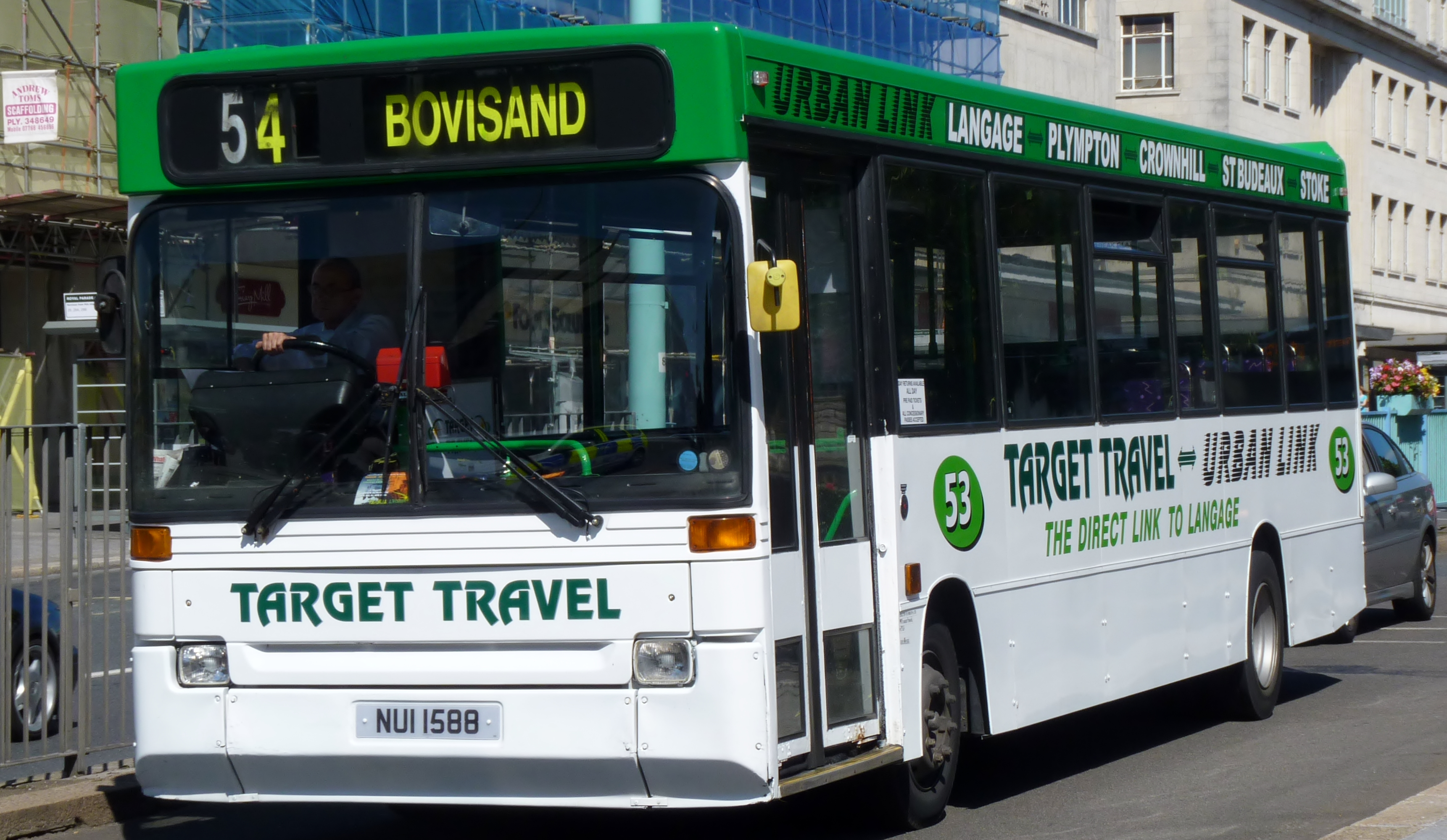 Target Travel NUI 1588, a Dennis Dart/Plaxton Pointer on route 54.